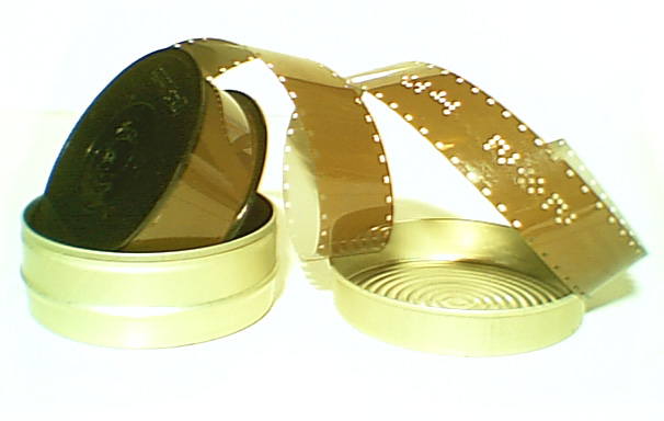 Double Super 8 spool, movie film